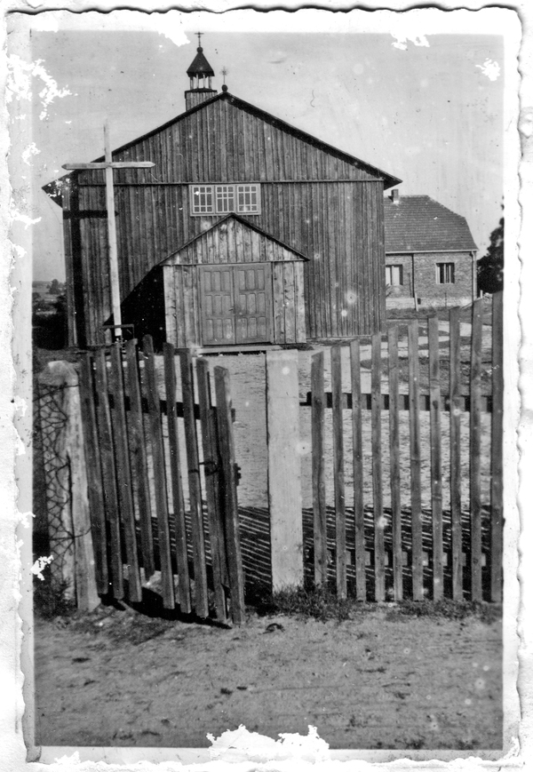 Dworszowice Pakoszowe, old church.